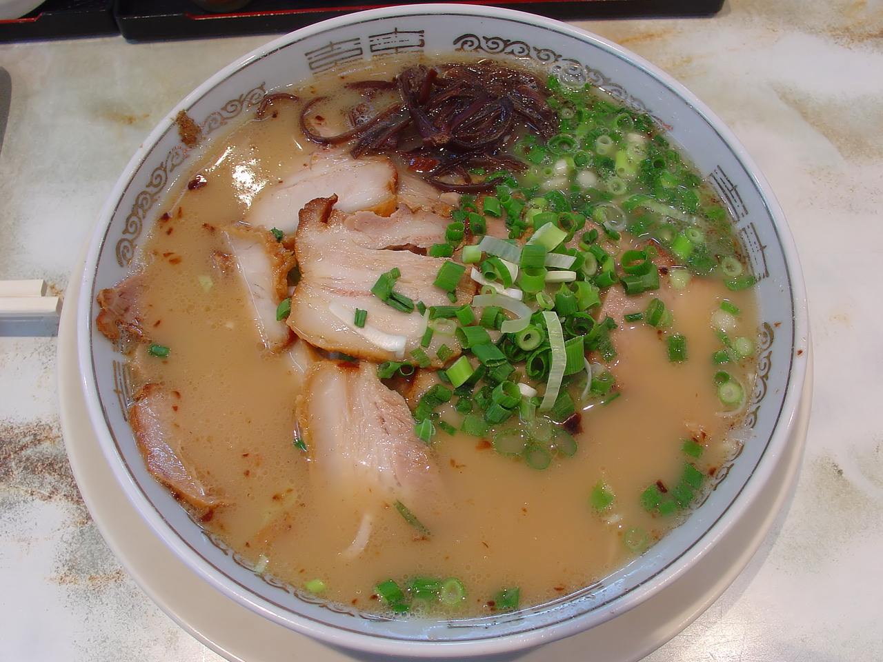 Kagoshima Ramen, Taken at Kagoshima City, Kagoshima Prefecture, Japan.